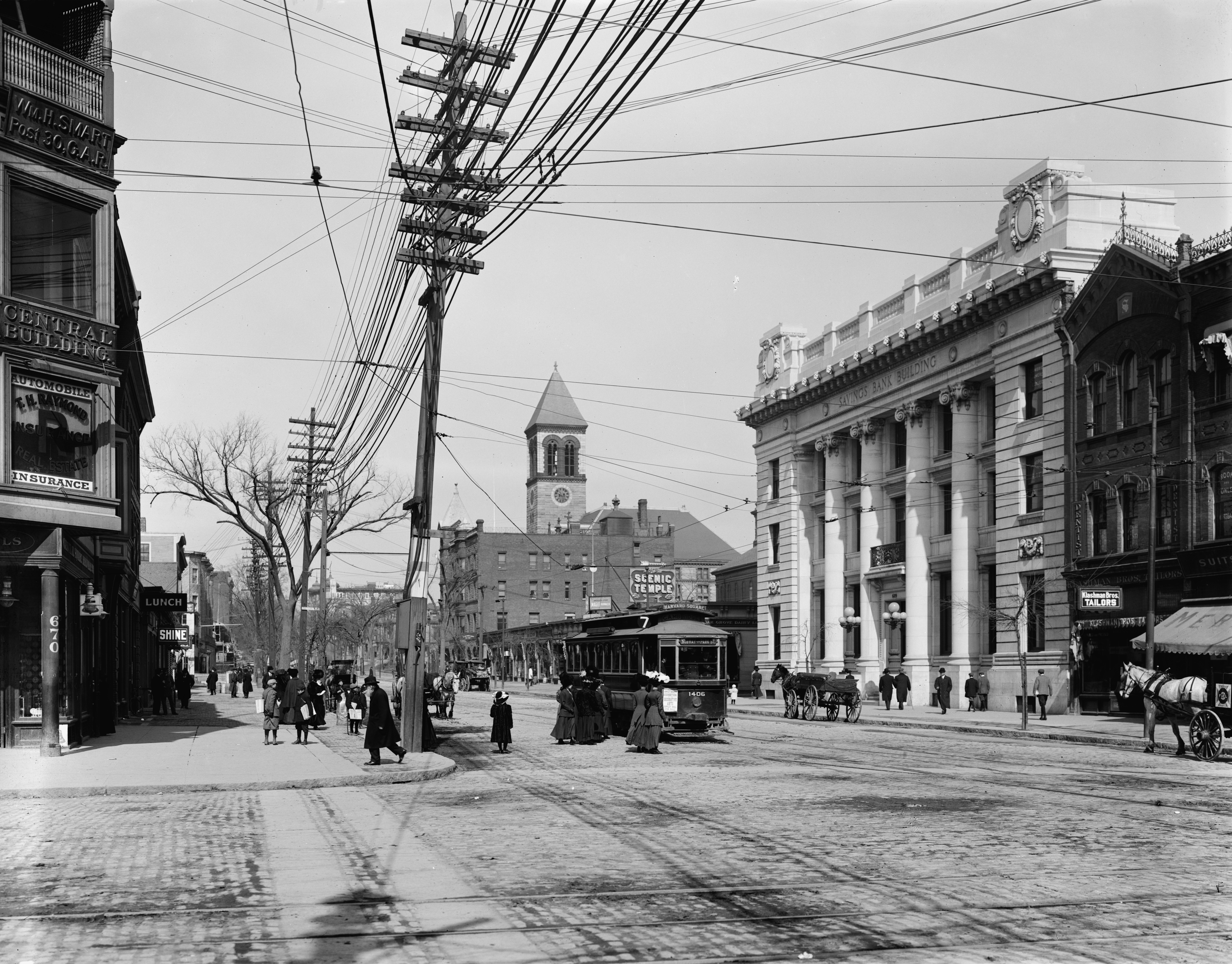 A subway-bound tram at Central Square on Massachusetts Avenue. The photo is undated, but the poster on the tram for an exhibition dates the photo to 1911.